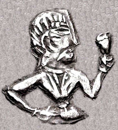 Hephthalites chieftain circa 484-560.